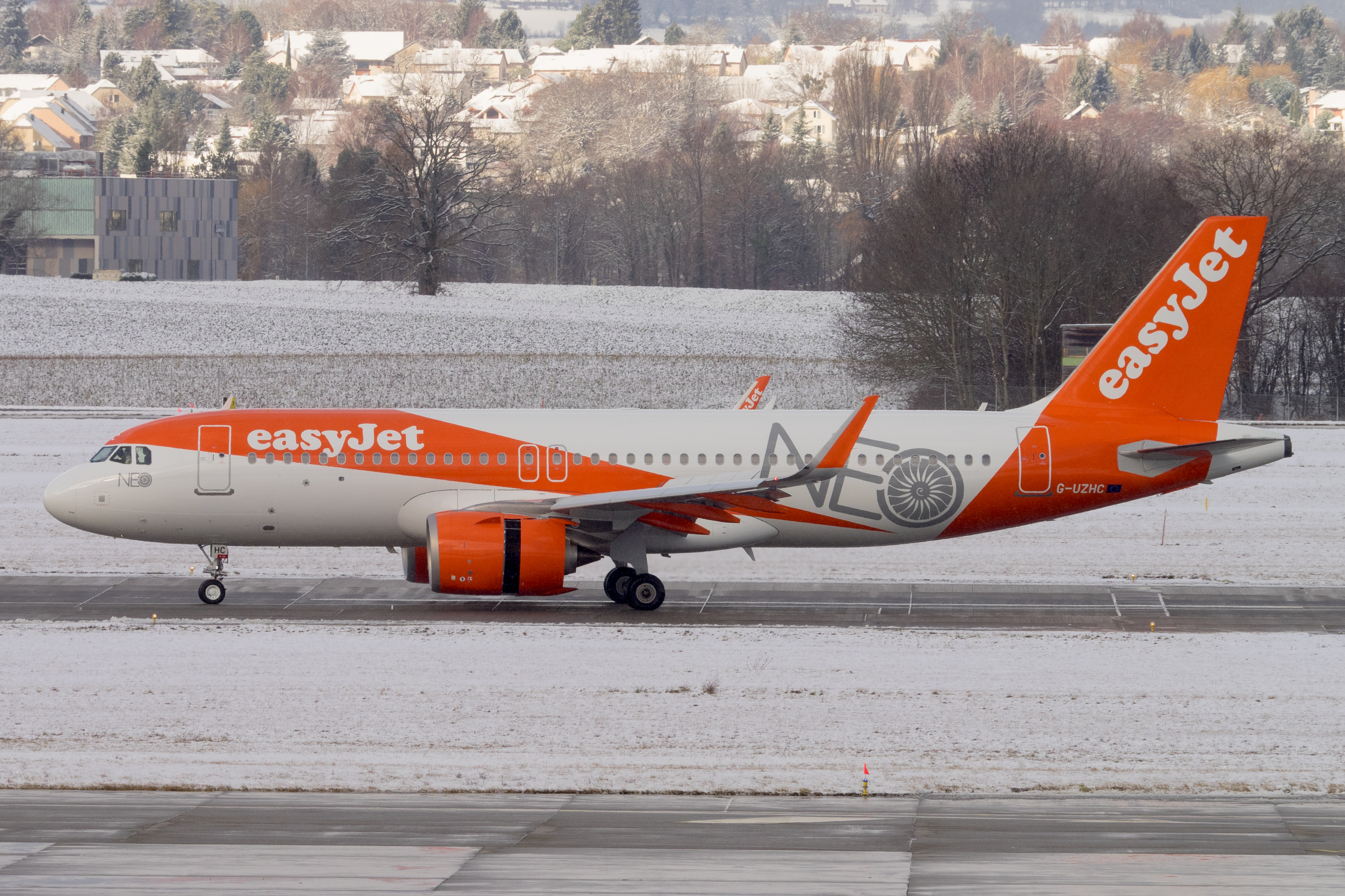 Airbus A320neo of EasyJet at Geneva Airport